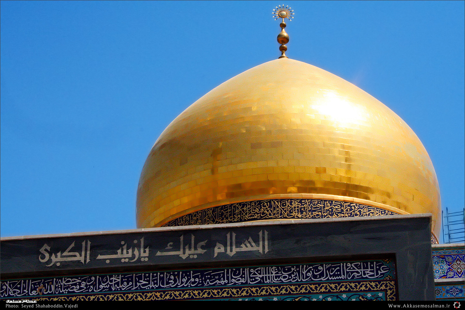 Dome of Zenab bint Ali, Damascus, Syria.